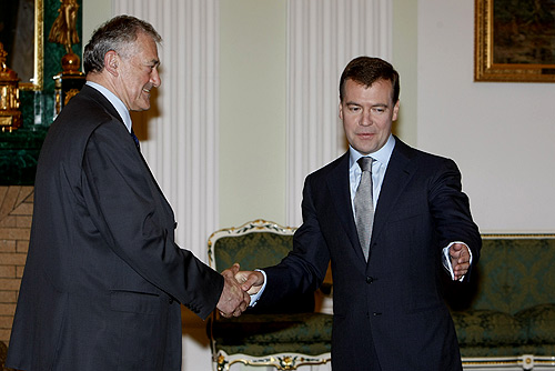 THE KREMLIN, MOSCOW. With Council of Europe Secretary General Terry Davis.